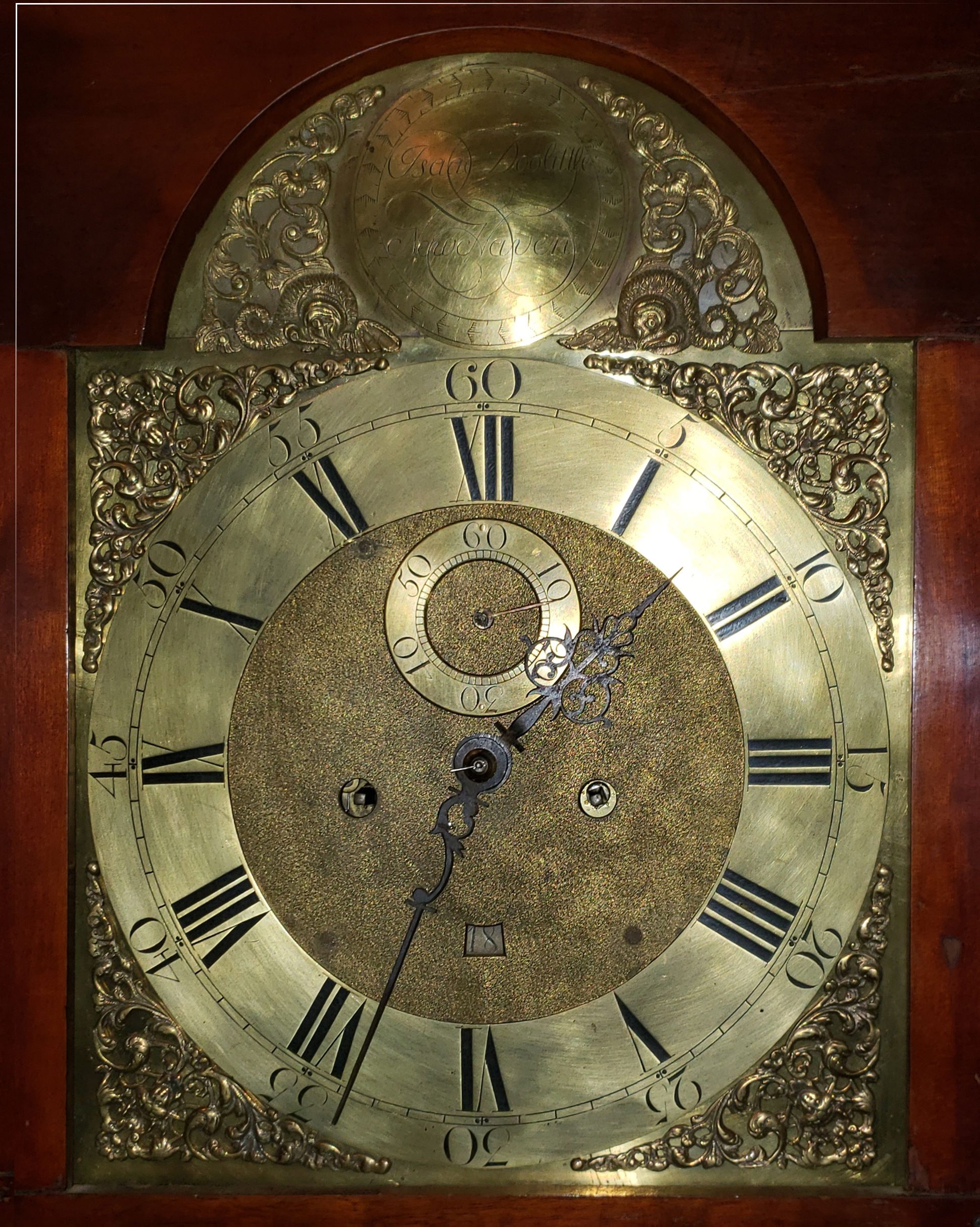 Isaac Doolittle c.1770s brass hall clock face with engraved signature medallion and decorative spandals